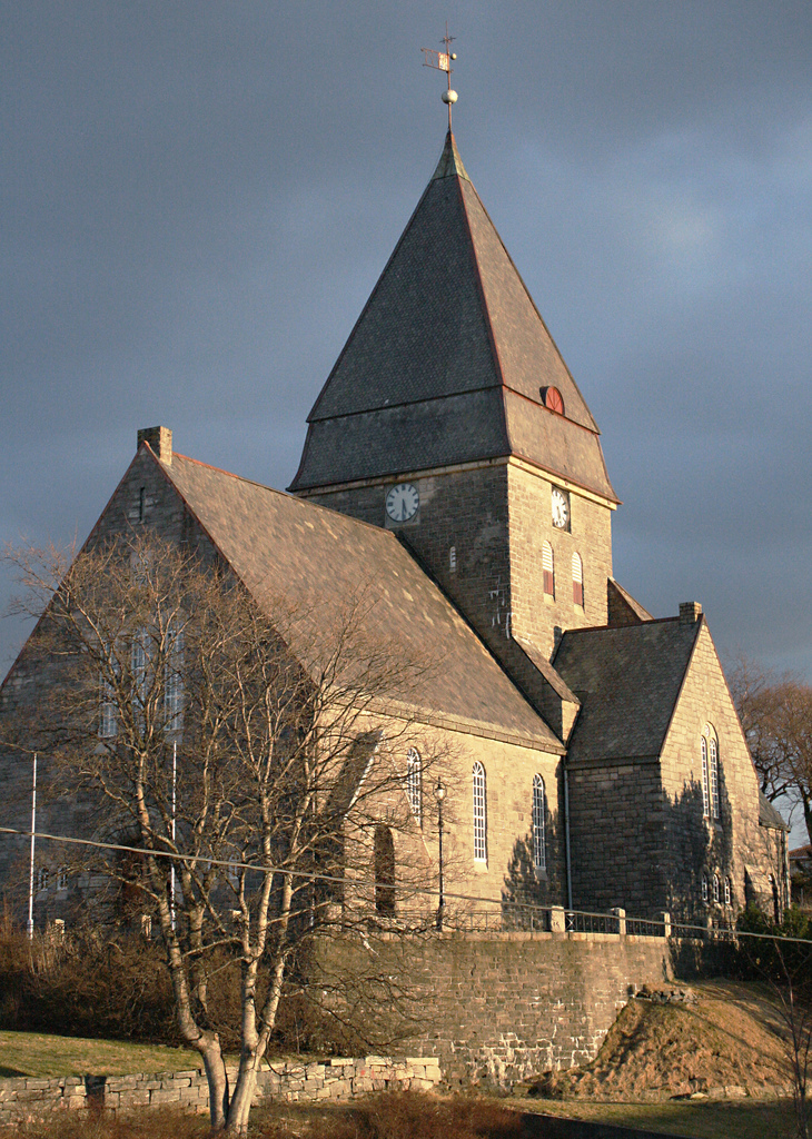 Nordlandet Church, Kristiansund